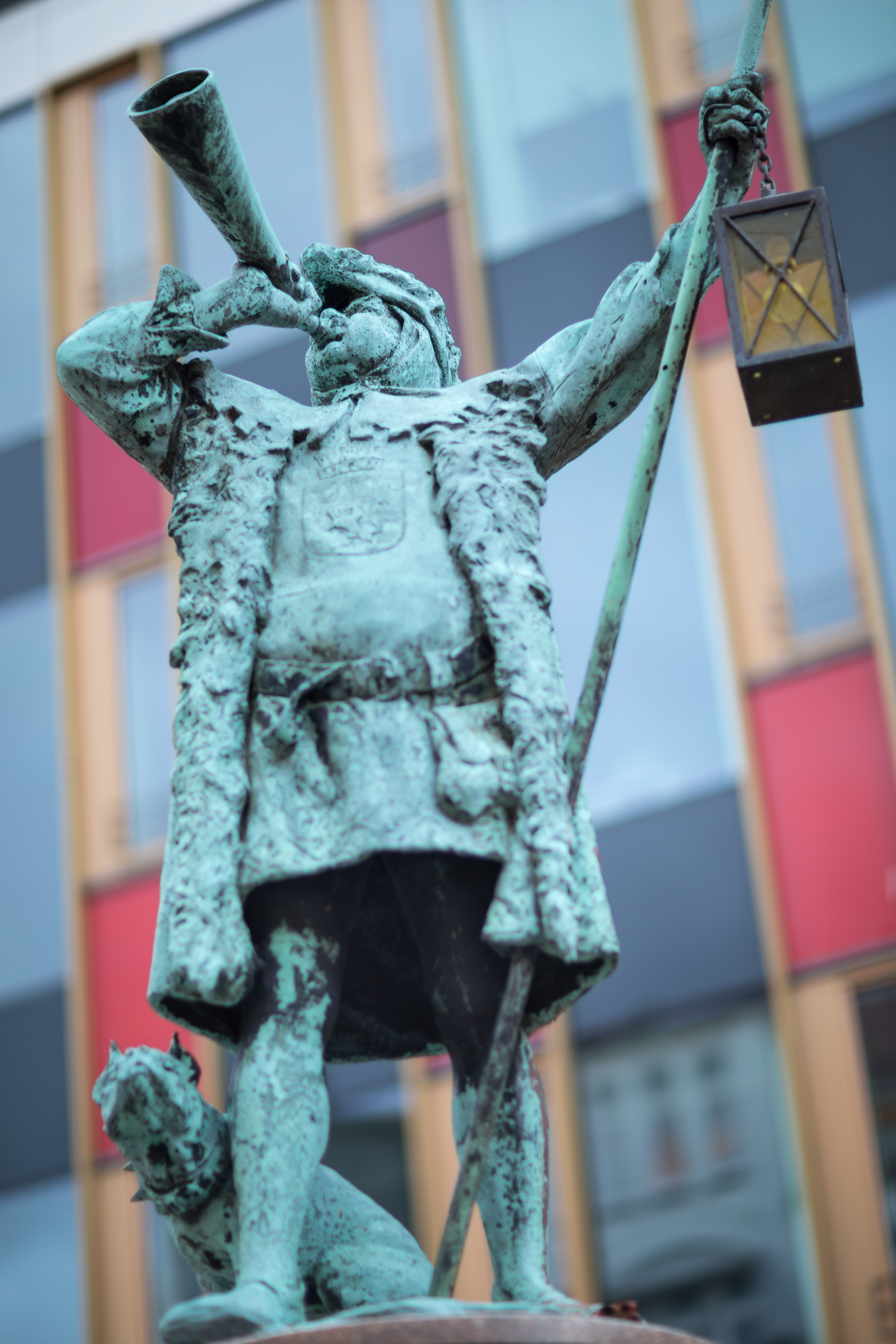 Foutain sculpture representing a nightwatchman located at Linden market square in Linden-Mitte quarter of Hannover, Germany.